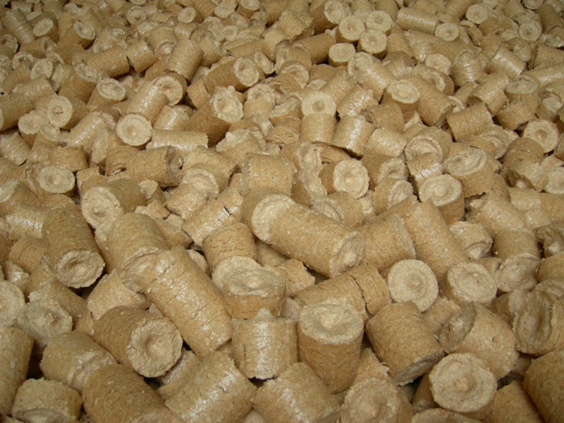 Briquettes of wood